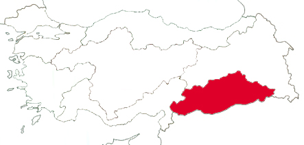 Map of Turkey with highlighted Southeast Anatolia Region (Güneydoğu Anadolu Bölgesi)